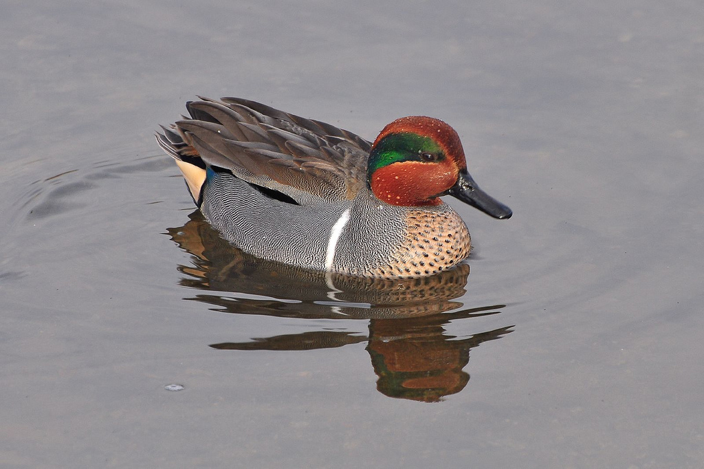 Anas carolinensis (Green-winged Teal), male. Burnaby Lake, British Columbia, Canada.Anas carolinensis (Green-winged Teal) male